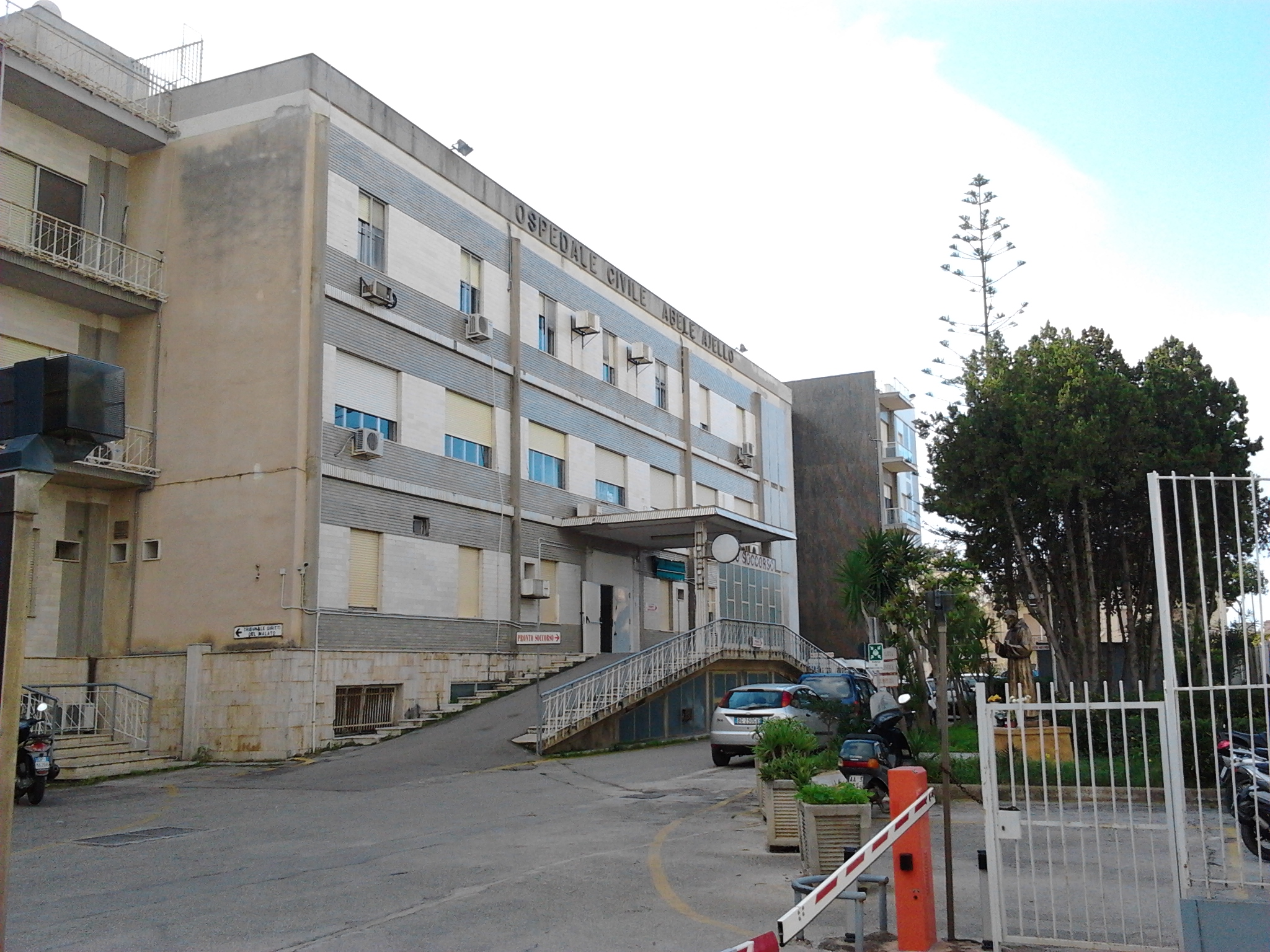 old "Abele Ajello" Hospital - Mazara del ValloEsperanto: Malsanulejo "Abele Ajello" - MazaradelvaloSicilianu: Spitali "Abele Ajello" - Mazzara